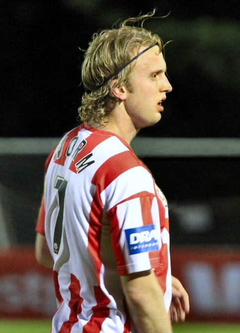 Melbourne Heart player Rutger Worm